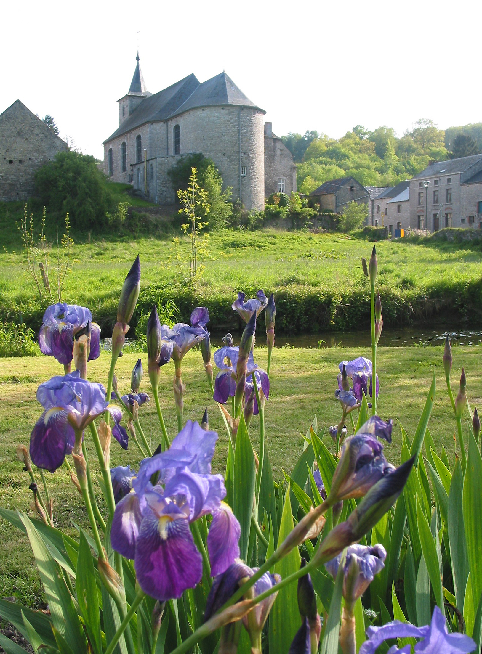 Sosoye (Belgium), the neighbourhood of the church of the Nativity (1764-1765) and the Molignée river.